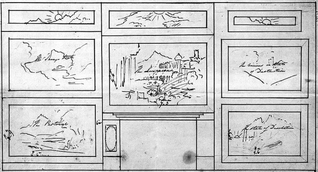 Sketch of US-american landscape artist Thomas Cole, displaying his wishes for arrangement of the paintings of his series The Course of Empire next to a fireplace in the gallery of his patron Luman Reed.